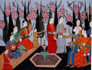 Parliament in Harem Garden. I.Ahmed Album